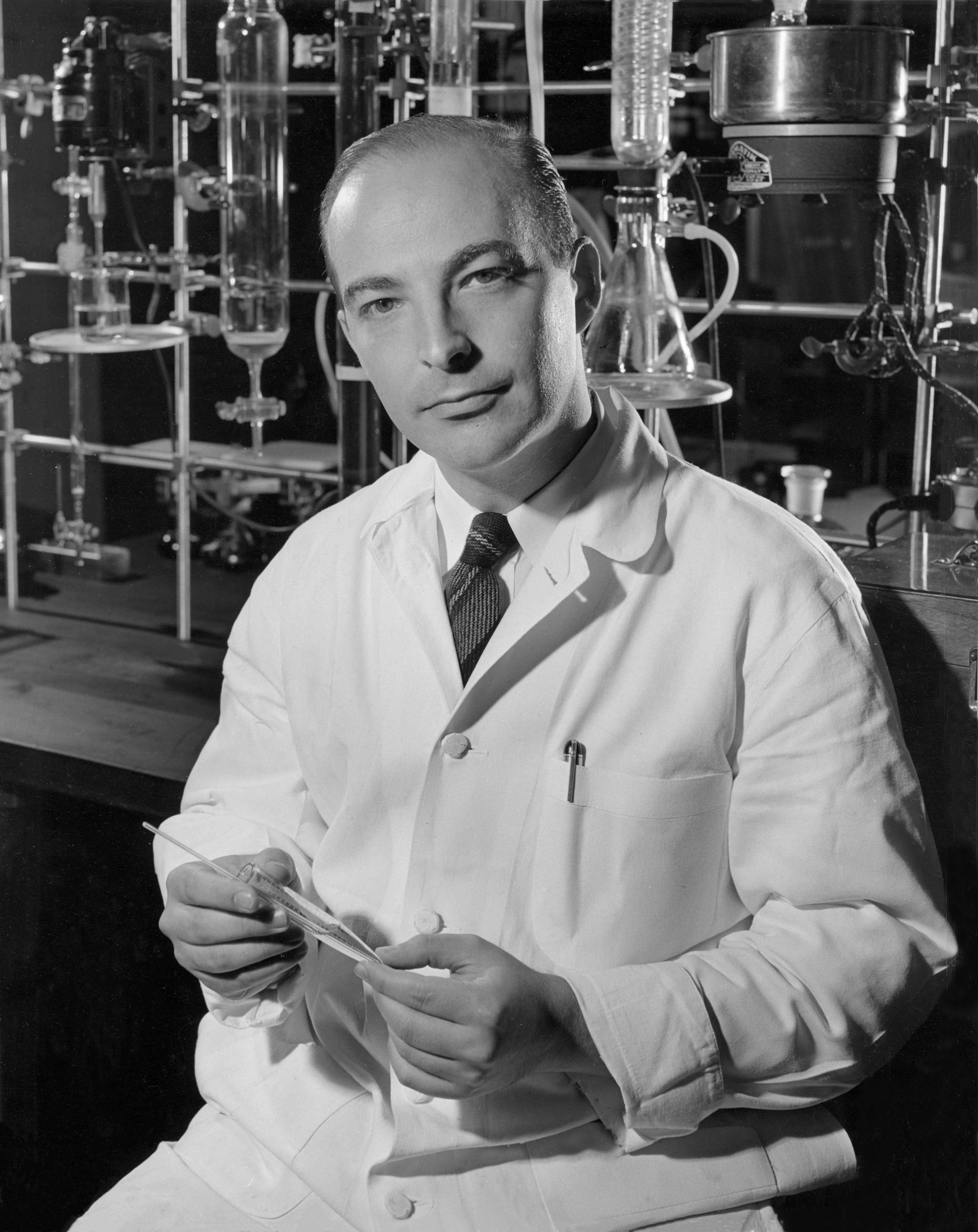 Dr. Arthur Kornberg in his laboratory. Kornberg joined the Public Health Service in 1942 and was assigned to the National Institute of Health, Laboratory of Chemistry to work on nutrition research. In 1948 he created an enzyme and metabolic section in the Laboratory. The Laboratory of Chemistry became the National Institute of Arthritis and Metabolic Diseases in 1950 and Dr. Kornberg remained at the Institute until 1953. While at NIH, Dr. Kornberg initiated a series of investigations into nucleotide biochemistry. After leaving the National Institutes of Health, Arthur Kornberg was awarded the Nobel Prize in Medicine and Physiology.